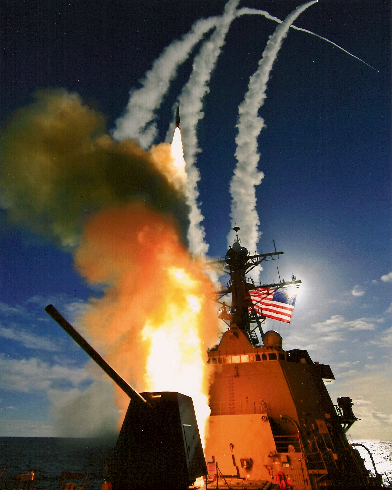 081216-N-0000X-001 PACIFIC OCEAN (Dec. 16, 2008) The missile launch system aboard the guided-missile destroyer USS Sterett (DDG 104) is tested during a combat systems ship qualification trial (CSSQT) at sea. CSSQT tests the operability of combat and weapons systems across all warfare areas and provide the crew an opportunity to test the functionality of all combat systems in live-fire tactical scenarios. (U.S. Navy photo/Released)